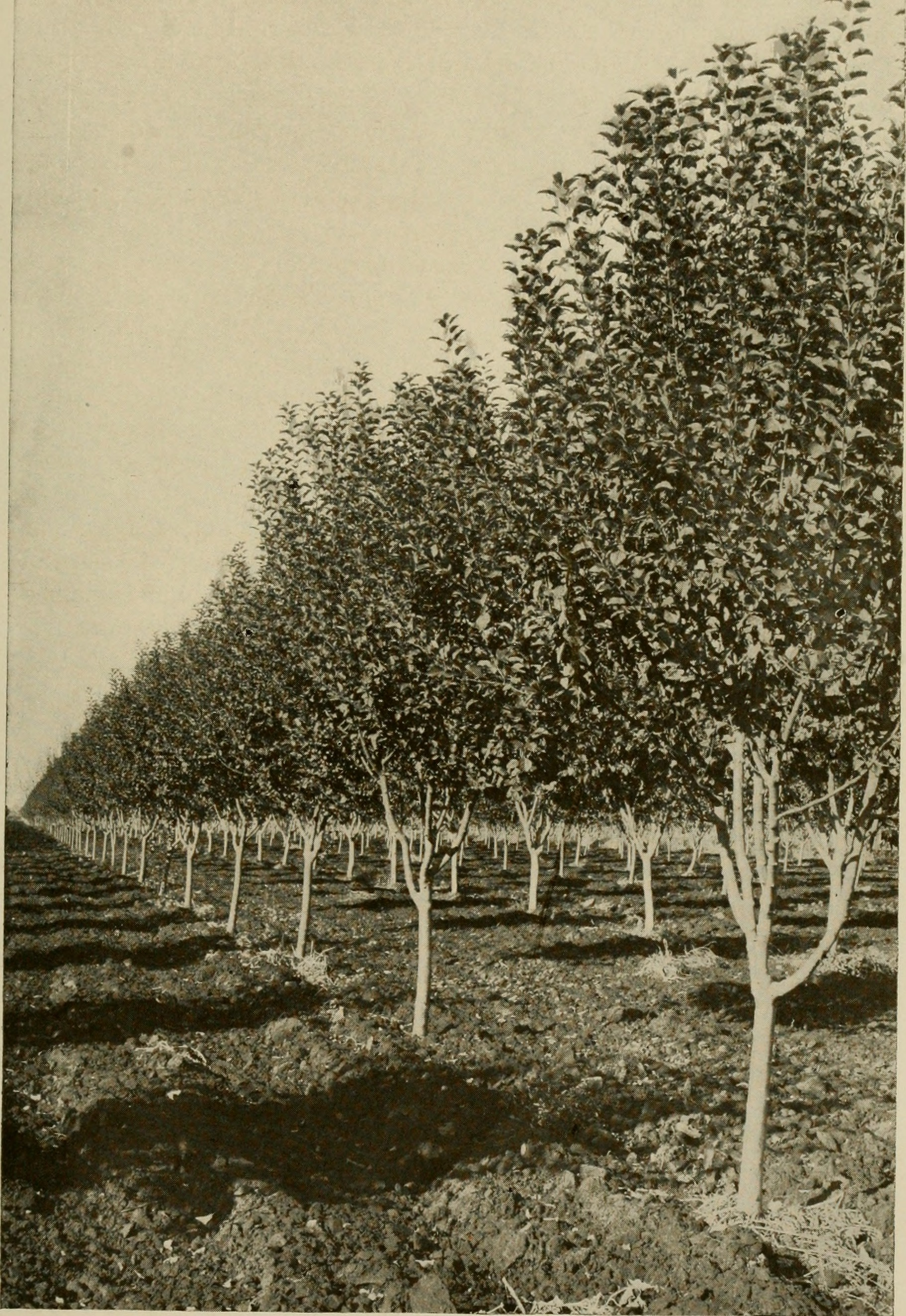 Title: Apple growing in the Pacific northwest Year: 1911 (1910s) Authors: Young men's Christian associations. Portland, Or Subjects: Apples; Fruit culture Publisher: Portland, Or. , The Portland, Oregon, Young men's Christian association Text Appearing Before Image: ' Text Appearing After Image: A famous apple orchard in the Walla Walla Valley, Washingiua.